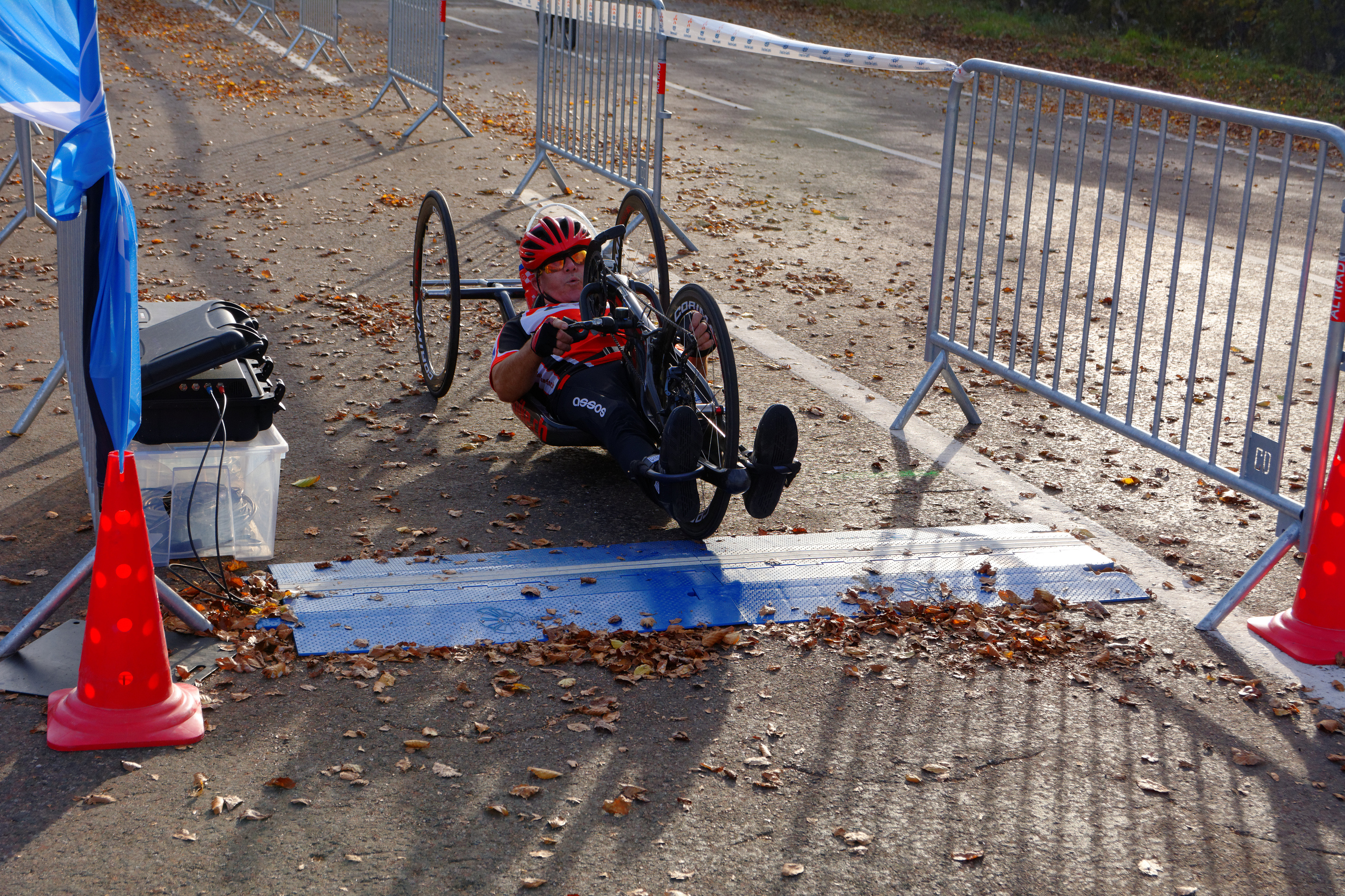 Personality rights warningAlthough this work is freely licensed or in the public domain, the person(s) shown may have rights that legally restrict certain re-uses unless those depicted consent to such uses. In these cases, a model release or other evidence of consent could protect you from infringement claims.